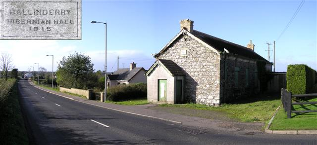 Ballinderry Hibernian Hall Built in 1915 and it is the first Hibernian Hall that I have noticed on my travels.